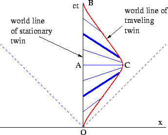 Introductory Physics, figure 4.9 Copyright 1998, 2000, 2001, 2003 David J. Raymond, under GNU FDL